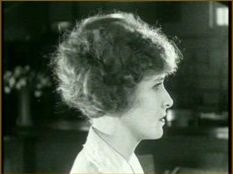 Claire Windsor from the film The Blot